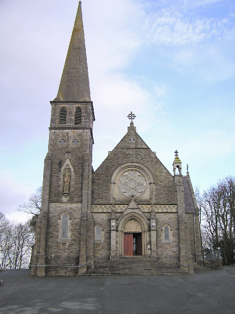 Gortin RC Church. It is located at the east end of the village.